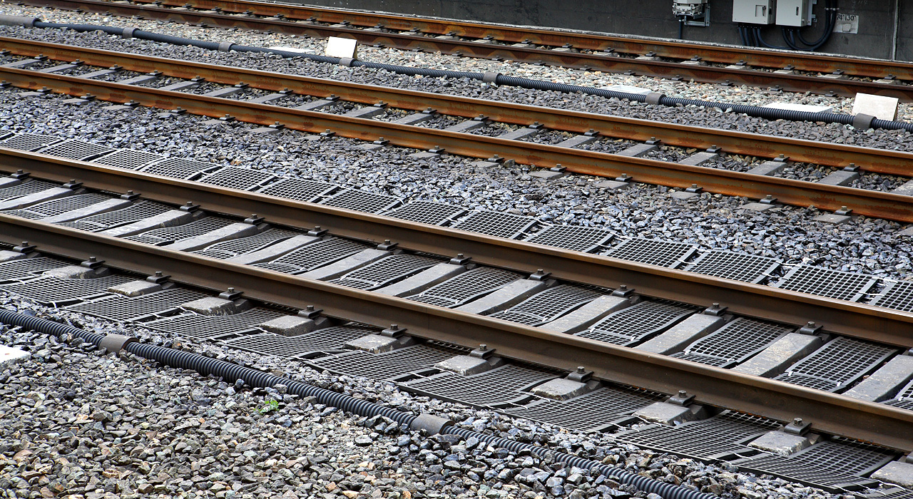 The mats between the railroad ties prevent lumps of ice falling from trains from scattering ballast. This picture showns Toyohashi Station on the Tōkaidō Shinkansen line.